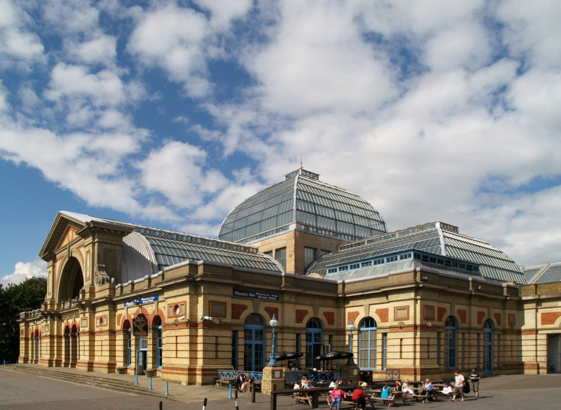 The front of the Alexandra Palace in London